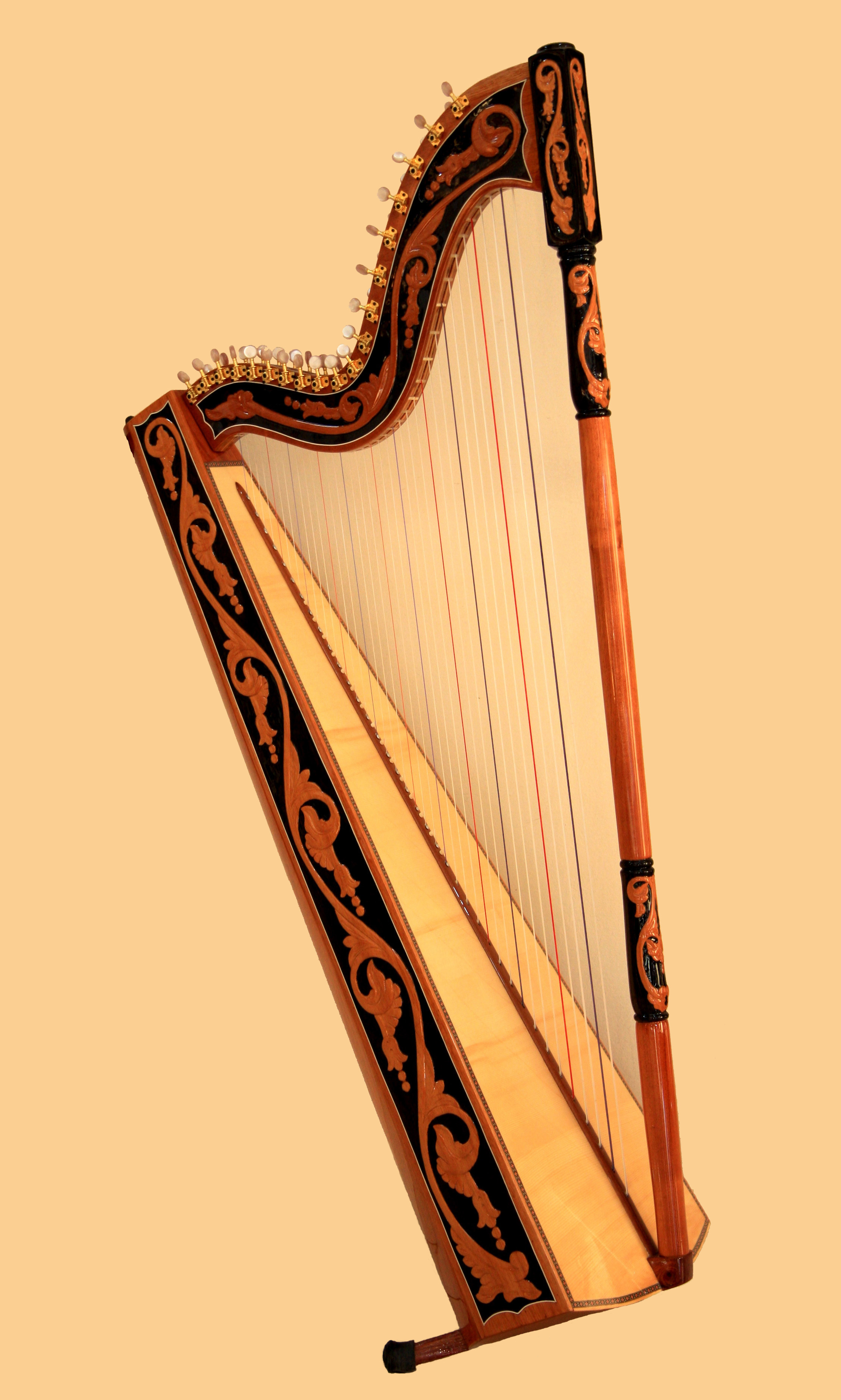 Paraguayan harp in a shop in Asuncion, Paraguay.